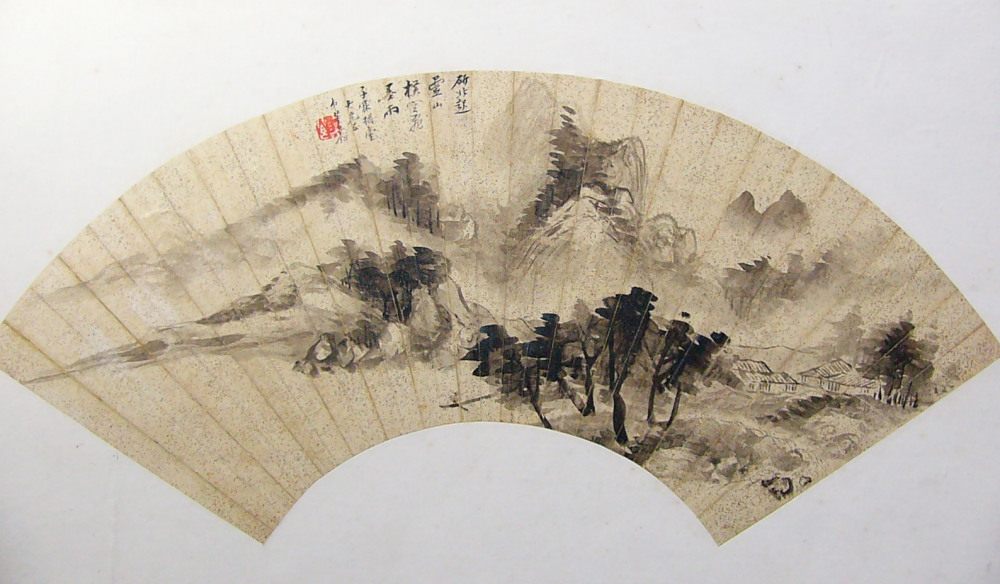 Mi-style Landscape Fan Painting Color and Ink on gold ornamented paper